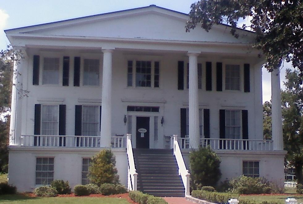 Orange Hall — historic residence in the St. Marys Historic District, St. Marys, Camden County, southeastern Georgia, U.S. The Greek Revival style house with Doric columns was originally built in 1828.